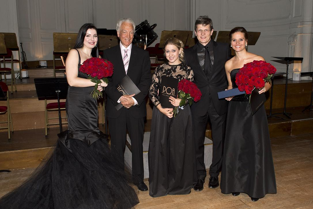 Hommage à Dame Joan Sutherland. Paris Opera Awards, International Singing Competition.